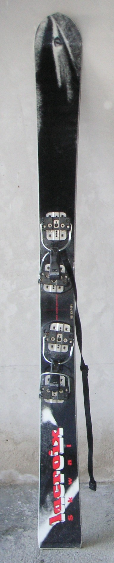 A skwal board leaning at the wall.